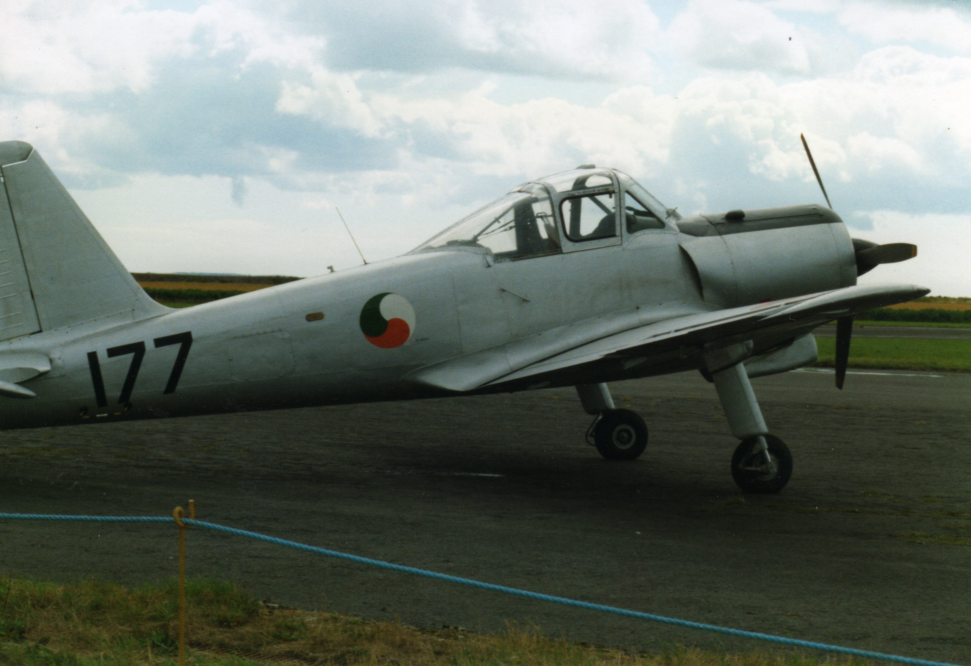 Newtownards Air Show, Newtownards Airfield, Newtownards, County Down, Northern Ireland, June 1990